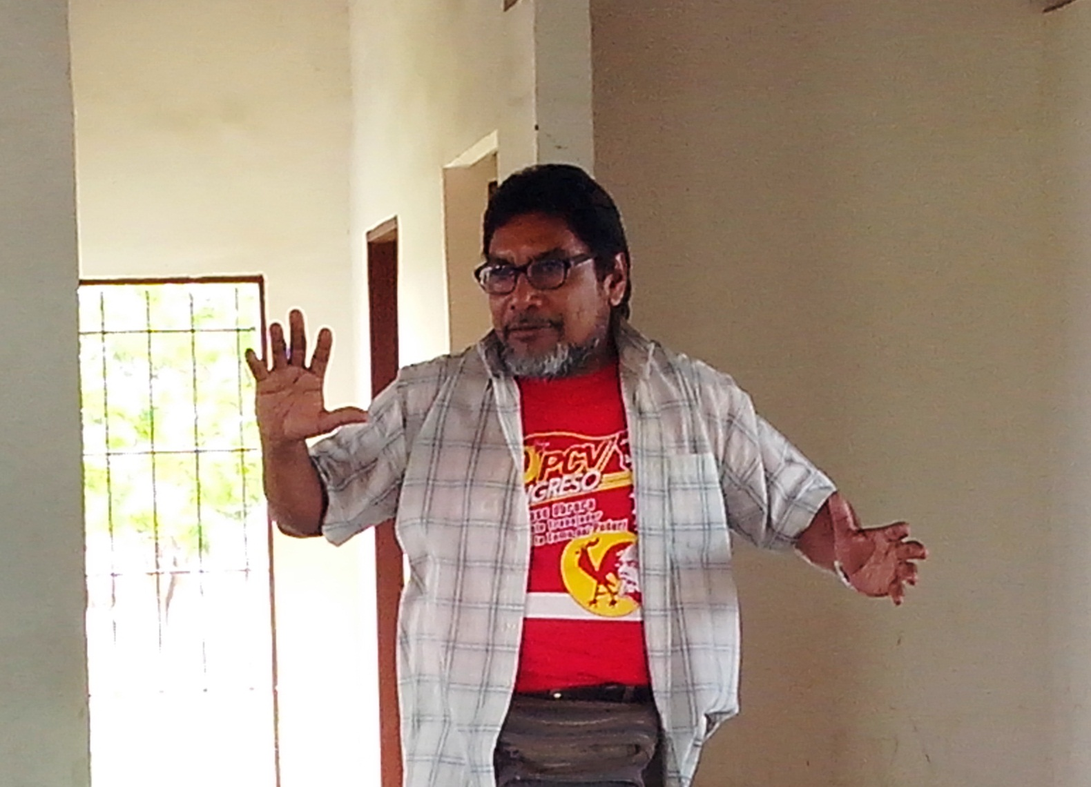 Oscar Figuera talks to militants of PCV